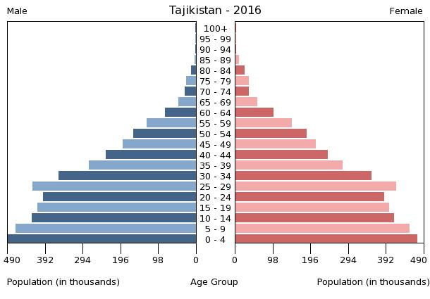 A population pyramid illustrates the age and sex structure of a country's population and may provide insights about political and social stability, as well as economic development. The population is distributed along the horizontal axis, with males shown on the left and females on the right. The male and female populations are broken down into 5-year age groups represented as horizontal bars along the vertical axis, with the youngest age groups at the bottom and the oldest at the top. The shape of the population pyramid gradually evolves over time based on fertility, mortality, and international migration trends.